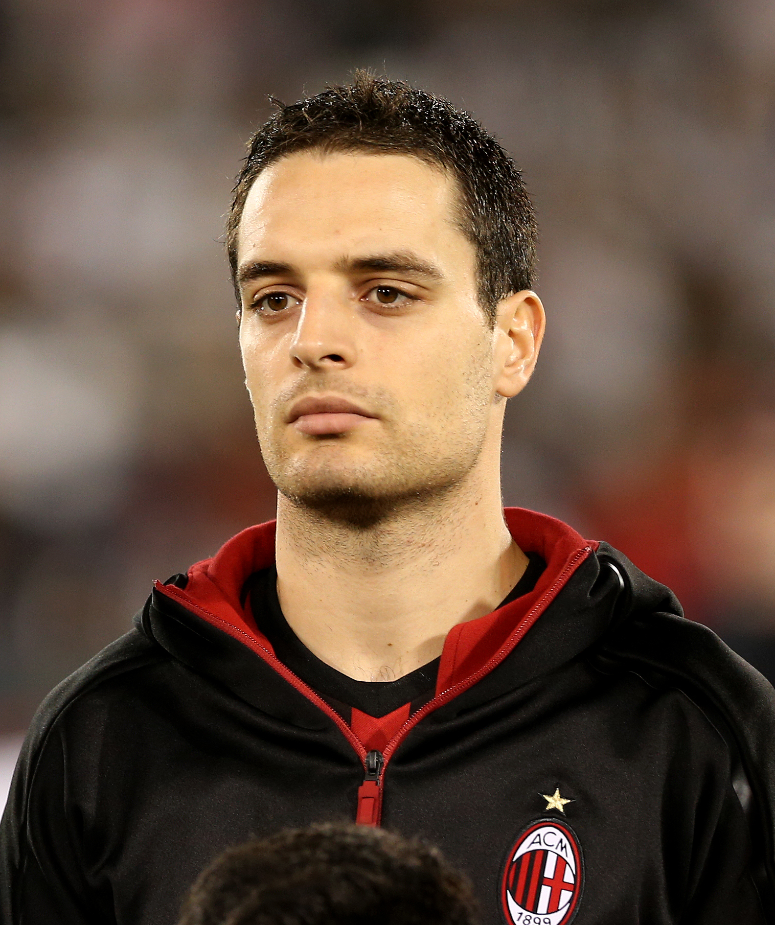 AC Milan's Giacomo Bonaventura during their Italian Super Cup match against Juventus in Doha, Qatar. Doha Stadium Plus - Vinod Divakaran